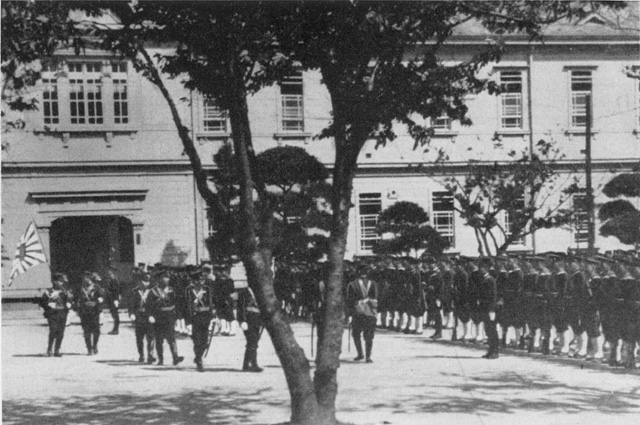 Imperial Japanese Navy Kure 6th Special Naval Landing Force stands inspection at its home barracks before embarking for the Midway operation, June 1942. After Japan's defeat in that battle, this force was deployed to the Central Solomons. (Photograph courtesy of the Morison History Project.)